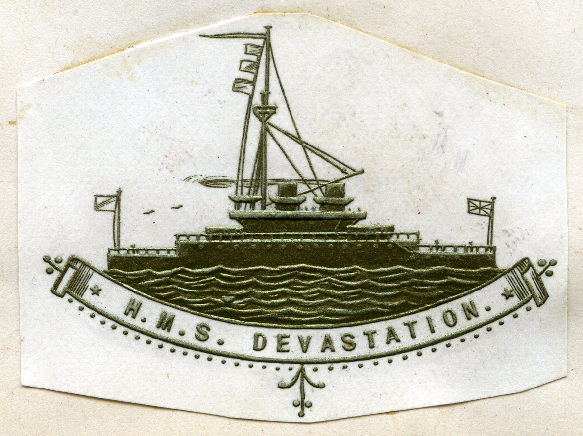 Heraldic crest of HMS Devastation (1871) from a c.1890 "Monogram and Crest Album" made by an unknown collector in Evian-les-Bains, France